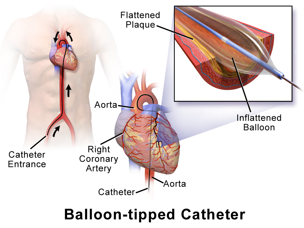 Balloon-Tipped Catheter. Animation in the reference.[1]